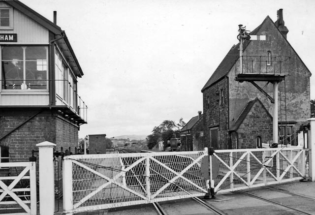 Brigham (Cumberland) Station. View eastward, towards Cockermouth (and Bullgill); London & NOrth Western Penrith - Keswick - Cockermouth - Workington line, former junction of Maryport & Carlisle branch from Bullgill. The station was closed, together with the line from Keswick on 18/4/66 - and is now the A66 road; the line from Bullgill had closed in 4/35.